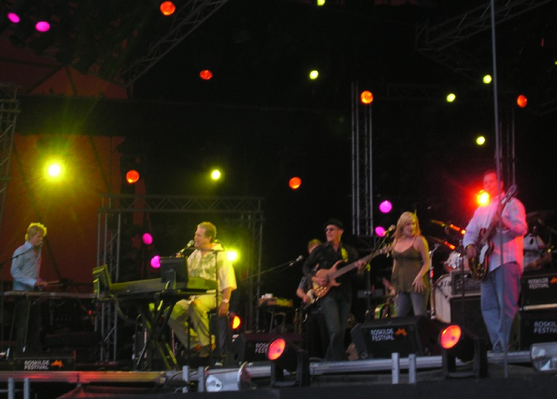 Brian Wilson from The Beach Boys live at Roskilde Festival, 3 July 2005.